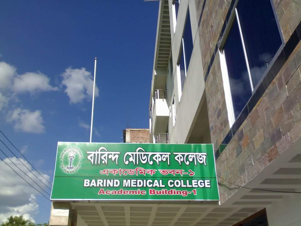 Barind Medical college in a private medical college of bangladesh,situated in Rajshahi district.